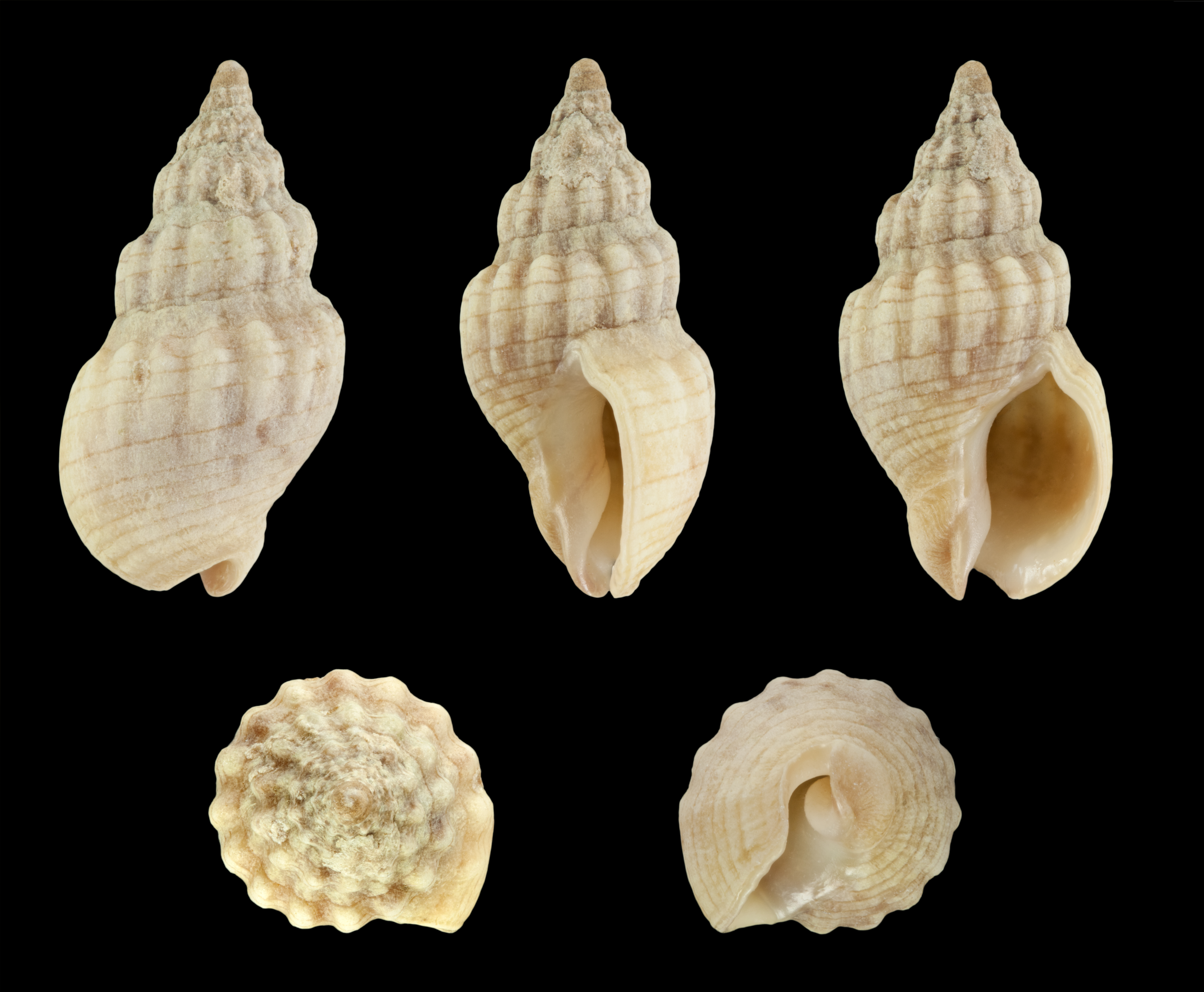 Cominella quoyana Adams, 1855; Length 1.8 cm; Originating from Kawau Island, New Zealand; Shell of own collection, therefore not geocoded.